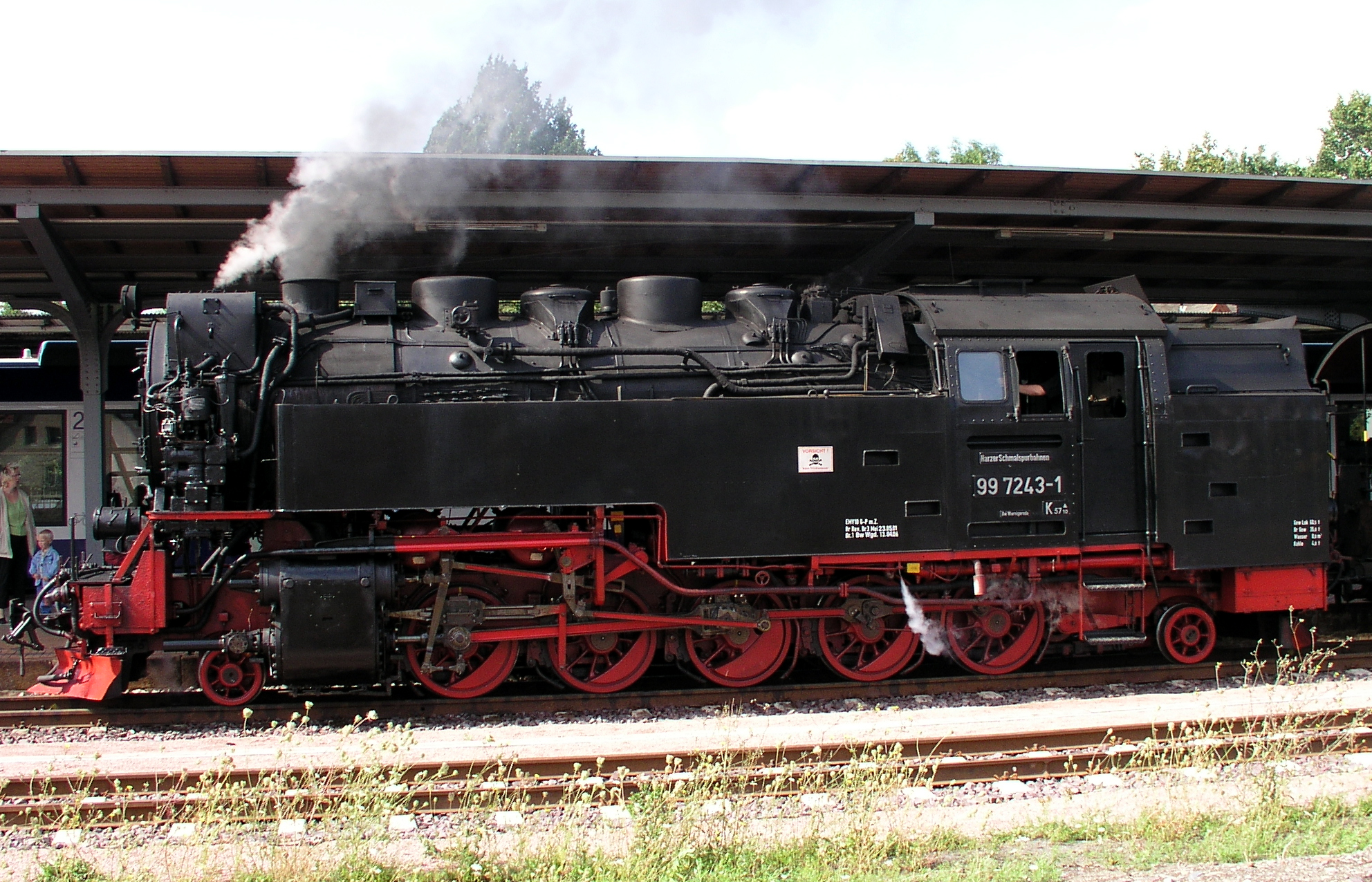 Deutsche Reichsbahn DR Class 99.23-24 steam locomotive, no. 99 7243 in Quedlingburg, Germany.